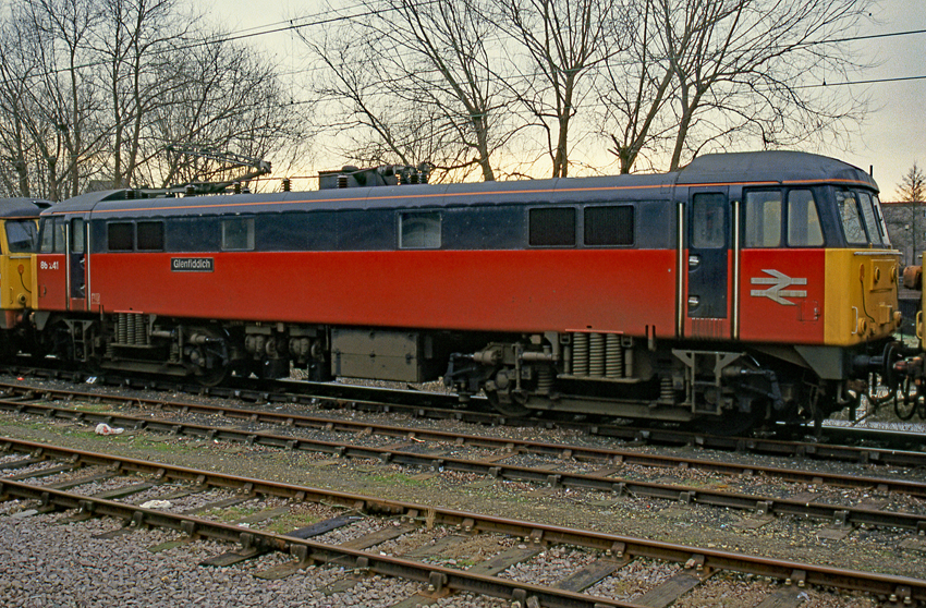 BR class 86/2 86241 Glenfiddich in Parcels Sector livery stabled at Northampton in 1992. Number history: E3121, 86241, 86508 Scanned from a Fujichrome 35mm slide.